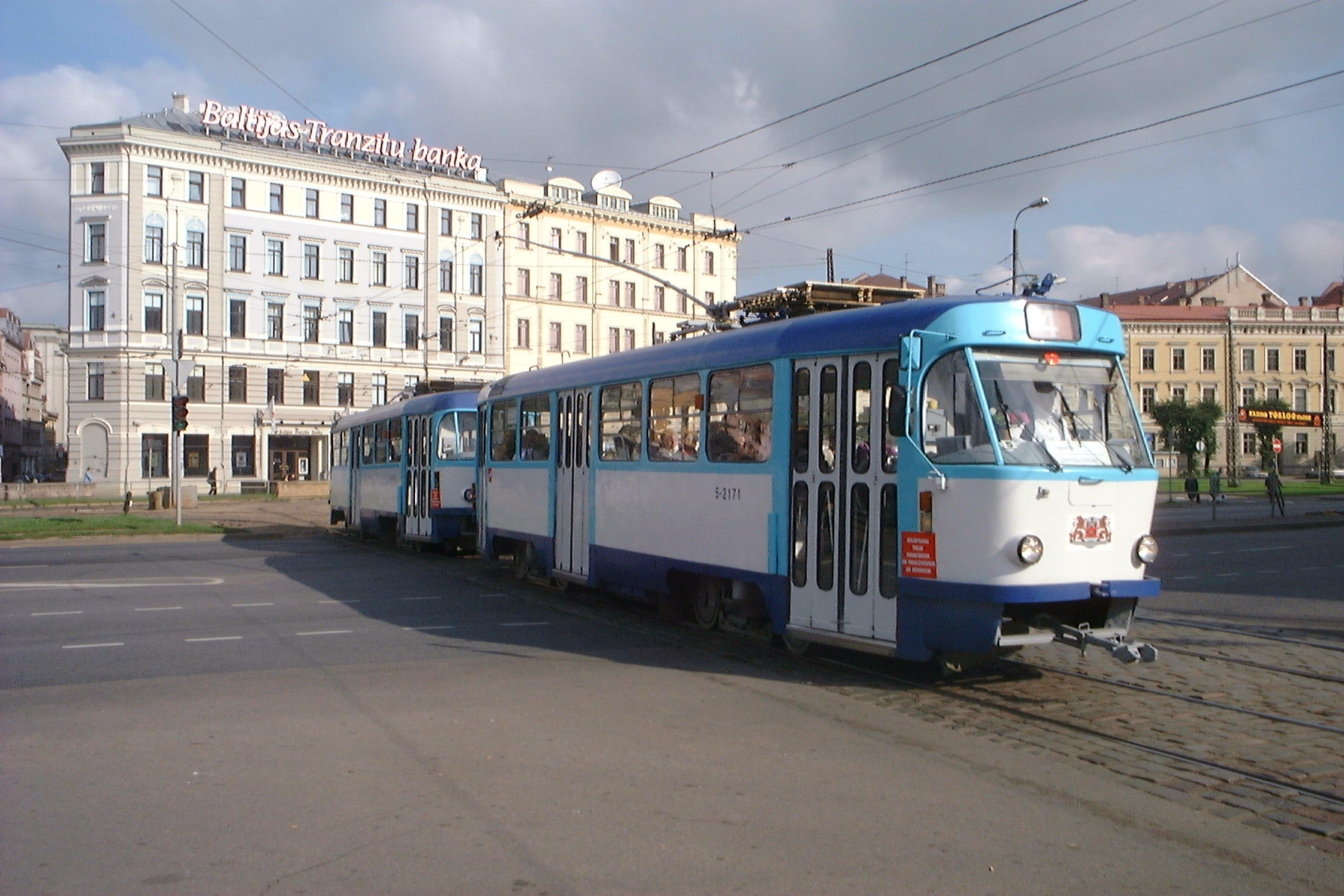 Electric trams in Riga, Latvia